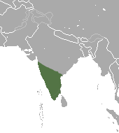 Bonnet Macaque (Macaca radiata) range